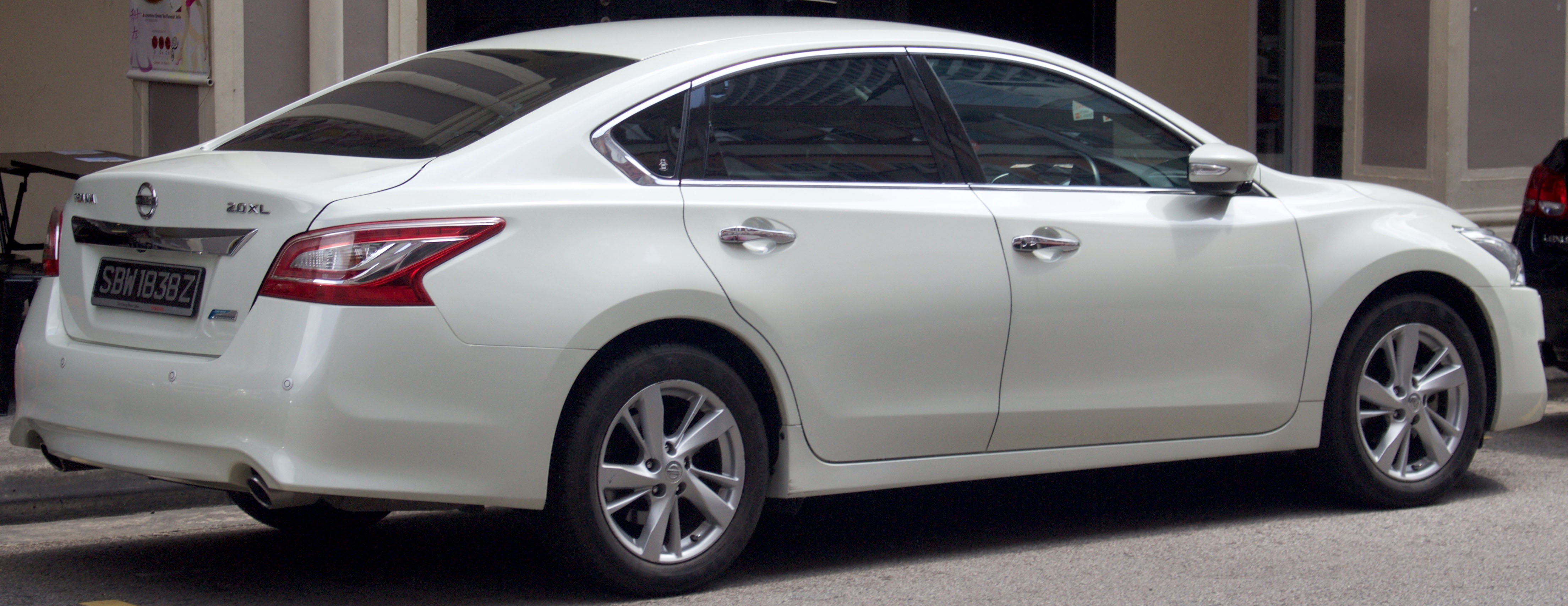 2014 Nissan Teana (L33) 2.0XL sedan. Photographed in Singapore. Vehicle registration enquiry resultsJurisdictionSingaporeRegistrationSBW1838ZChassis codeMNTBBAL33Z0003506Engine codeMR20038642RYear of manufacture2014